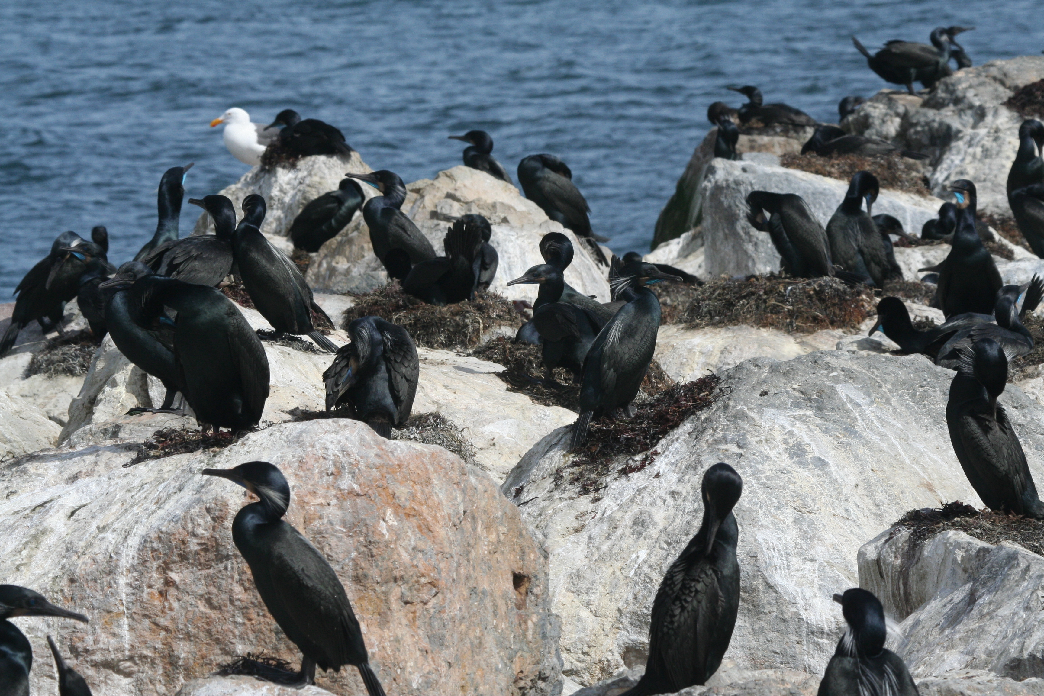 Photographed by and copyright of (c) David Corby (User:Miskatonic, uploader) 2006 A colony of Brandt's Cormorants nesting at San Carlos Beach/Breakwater in Monterey, California.